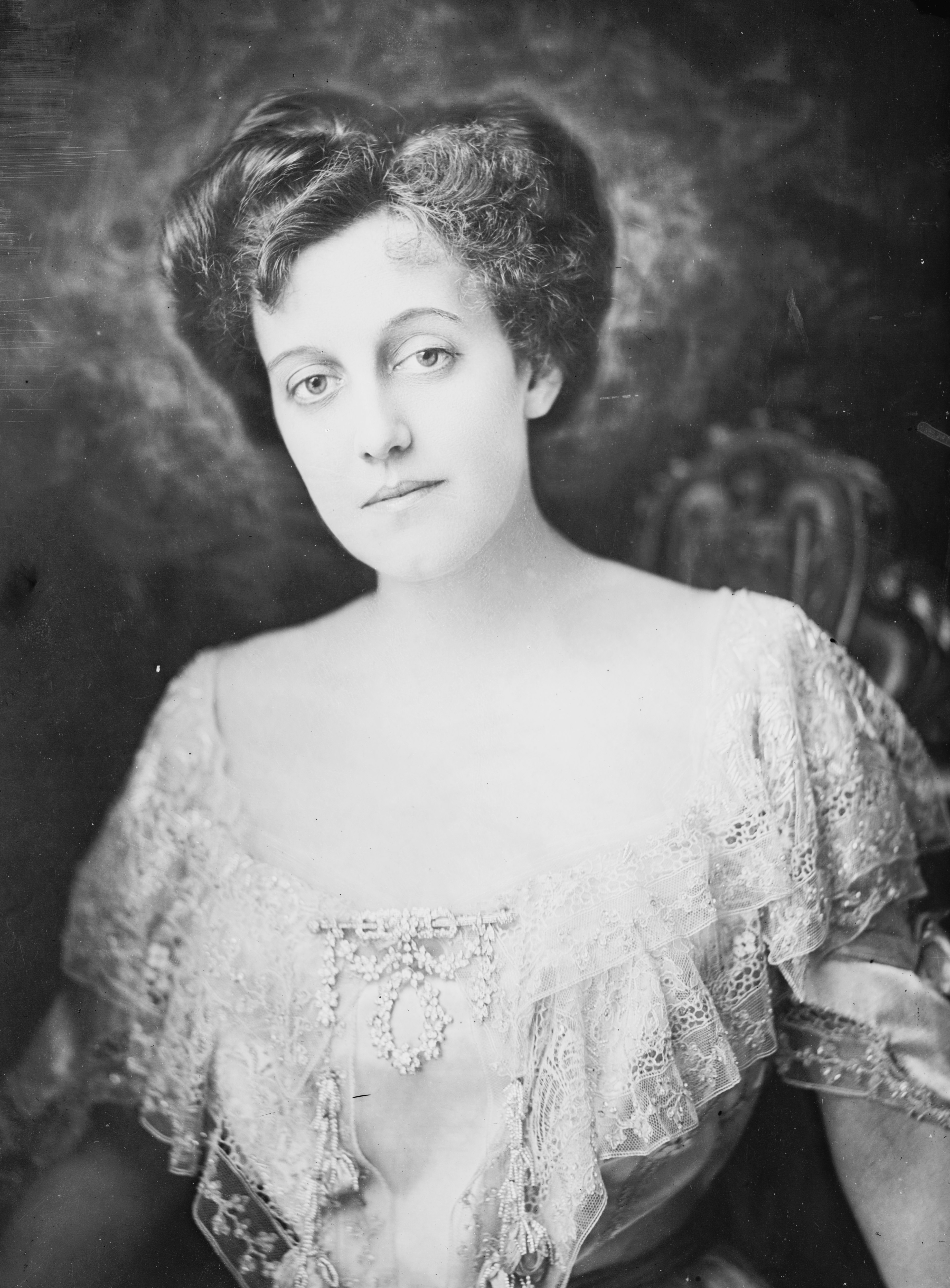 Grace Carley Harriman, New York philanthropist and social figure.